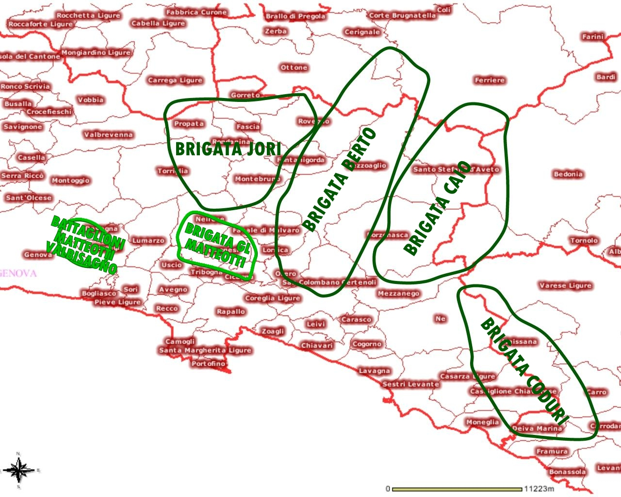 Distribution of Divisione Garibaldi "Cichero" in Liguria in April, 1945.